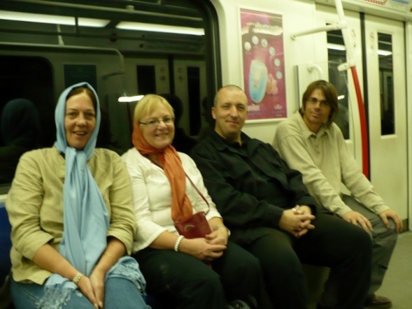 Tehran metro Sue, Felicity, Dave and John